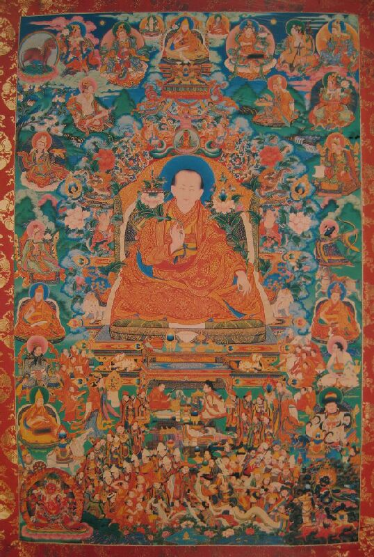 Desi Sanggye Gyatso (1653-1705): regent of Tibet after the passing of the 5th Dalai Lama and responsible for the building of the Potala Palace. Sanggye Gyatso was the 3rd and last Desi in the employ of the 5th Dalai Lama.